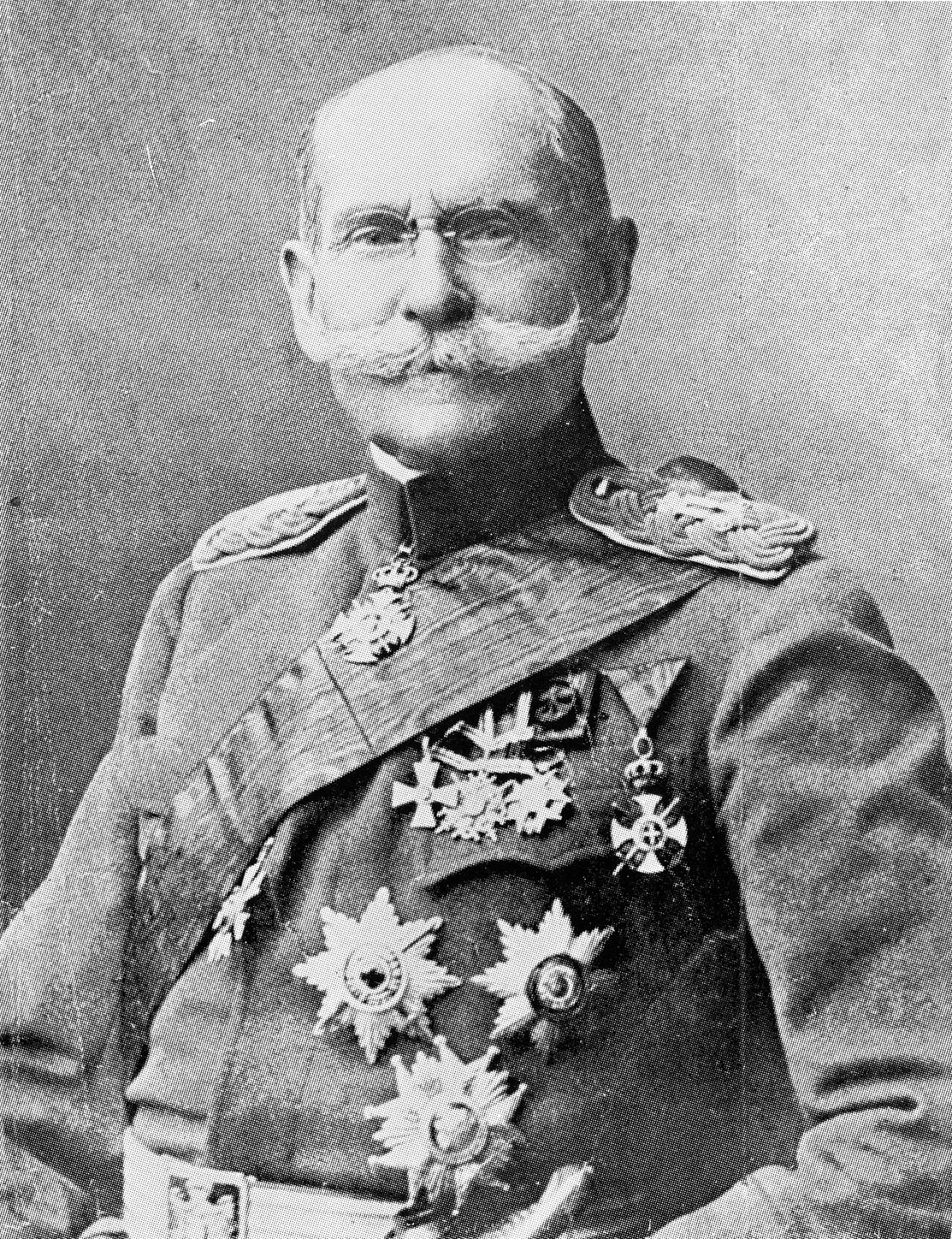 photo of Serbian General Pavle Jurišić Šturm